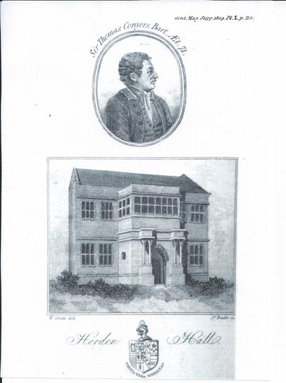 coat-of-arms of Conyers baronets